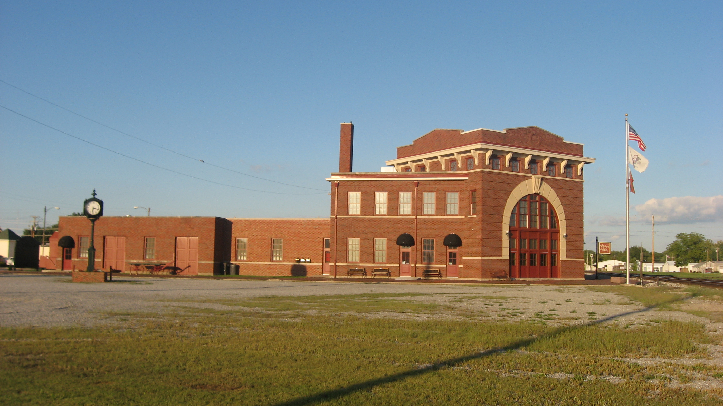 Front of the old Baltimore and Ohio Railroad Depot, located at 225 W. Railroad in Flora, Illinois, United States. Built in 1917, it is listed on the National Register of Historic Places.